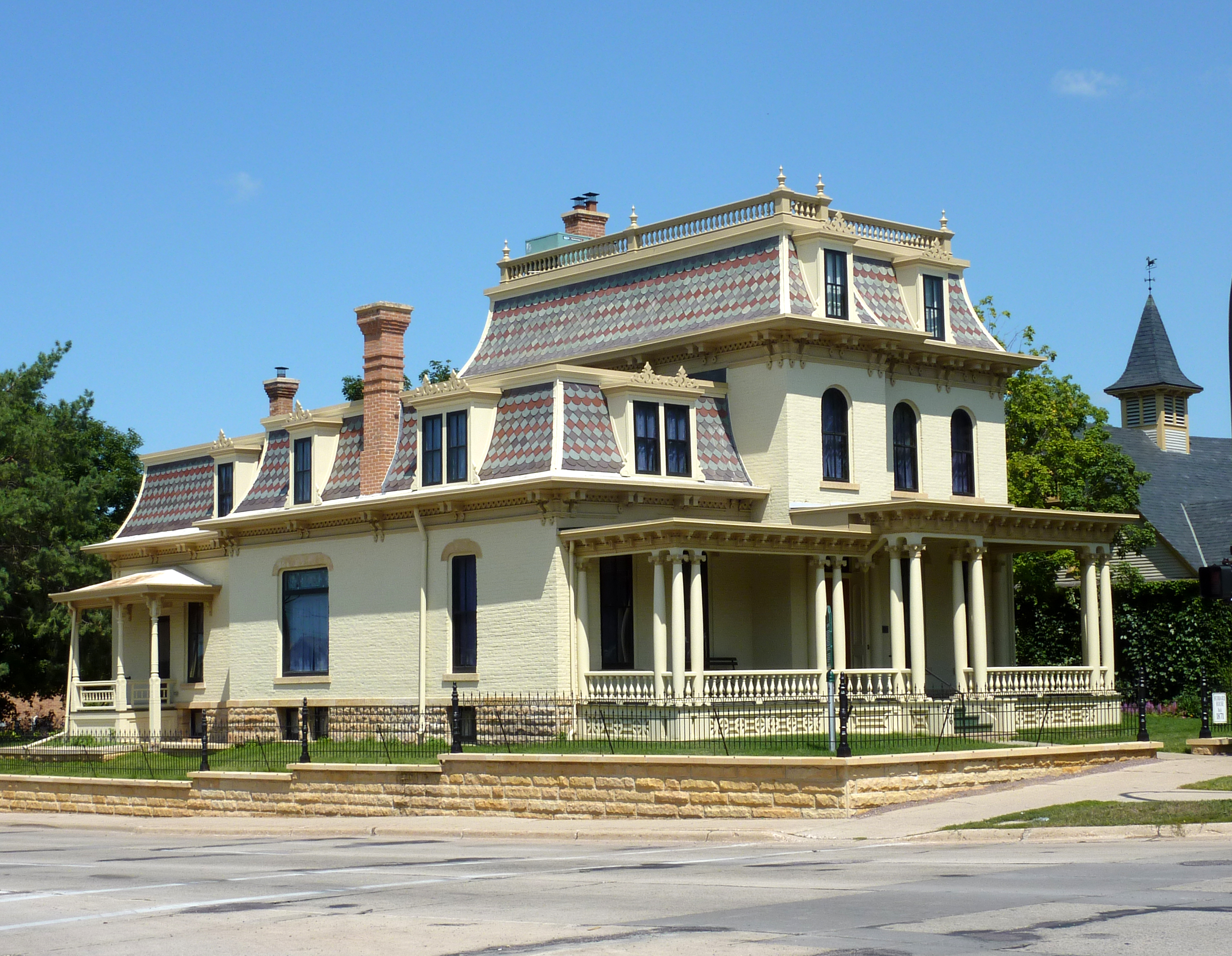 Renesselaer D. Hubbard House, Mankato, Minnesota, USA.